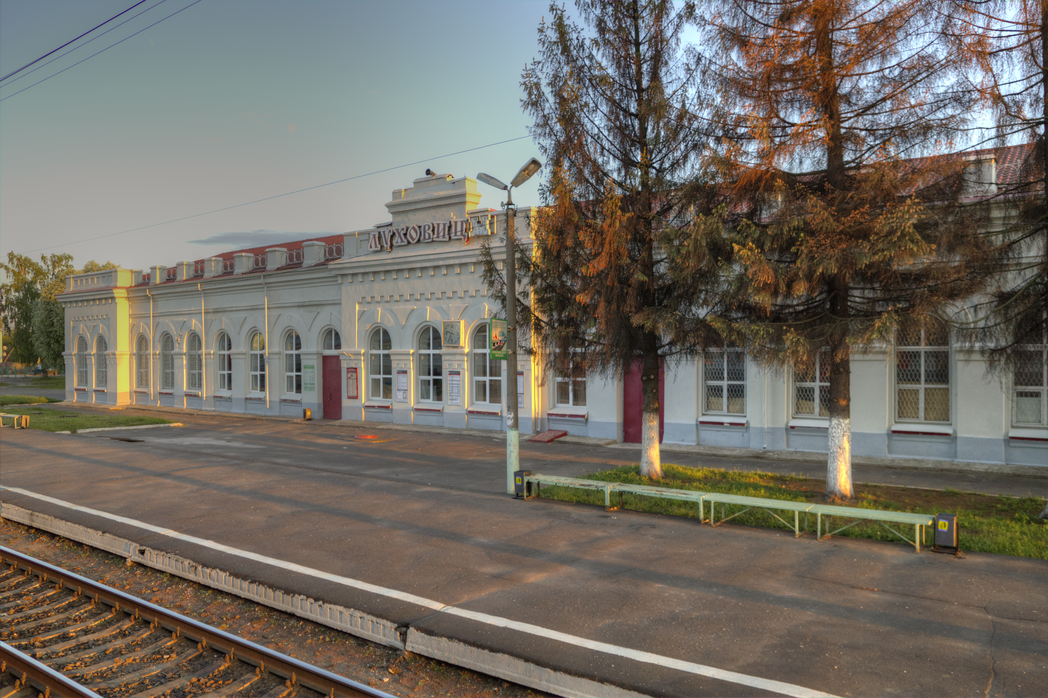 Railway station Lukhovitsy in Lukhovitsy, Moscow Oblast, Russia